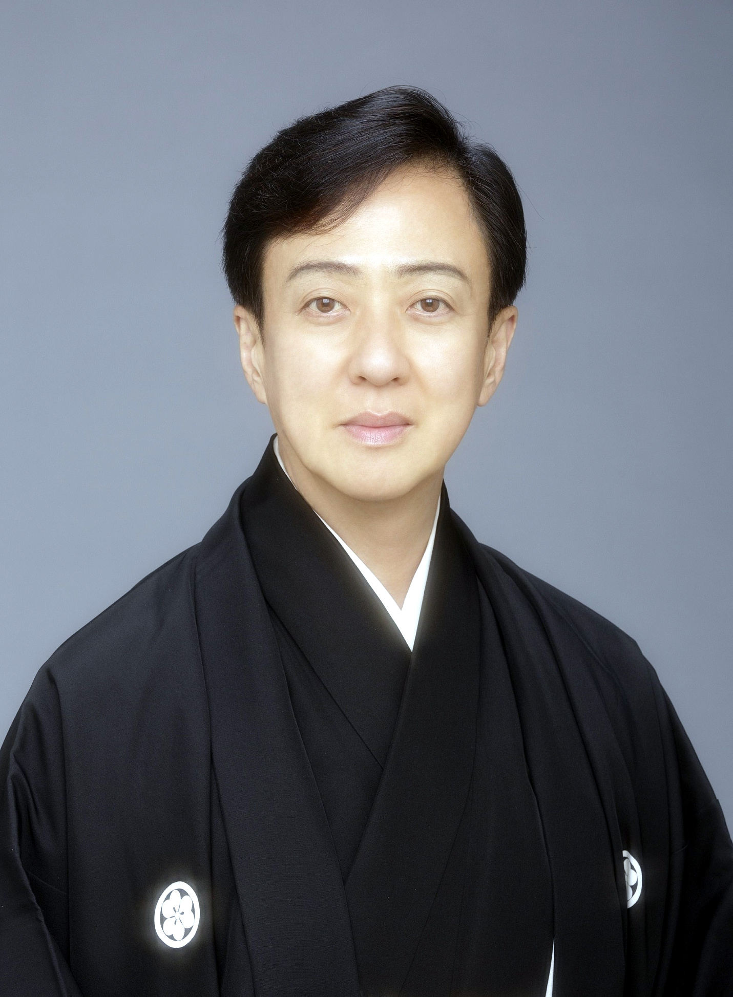 Shin'ichi Morita, Executive Director of Japan Actors' Association, received the Person of Cultural Merit on November, 2019.